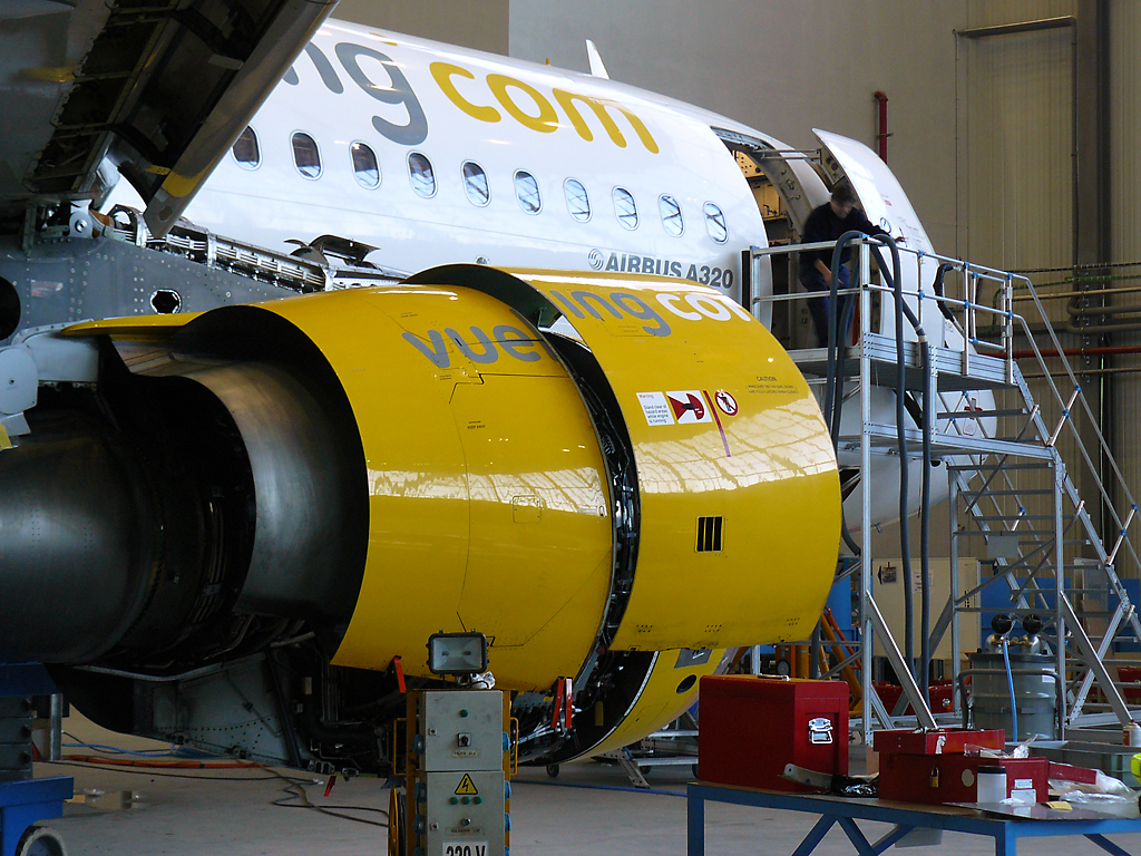 C-Check performing